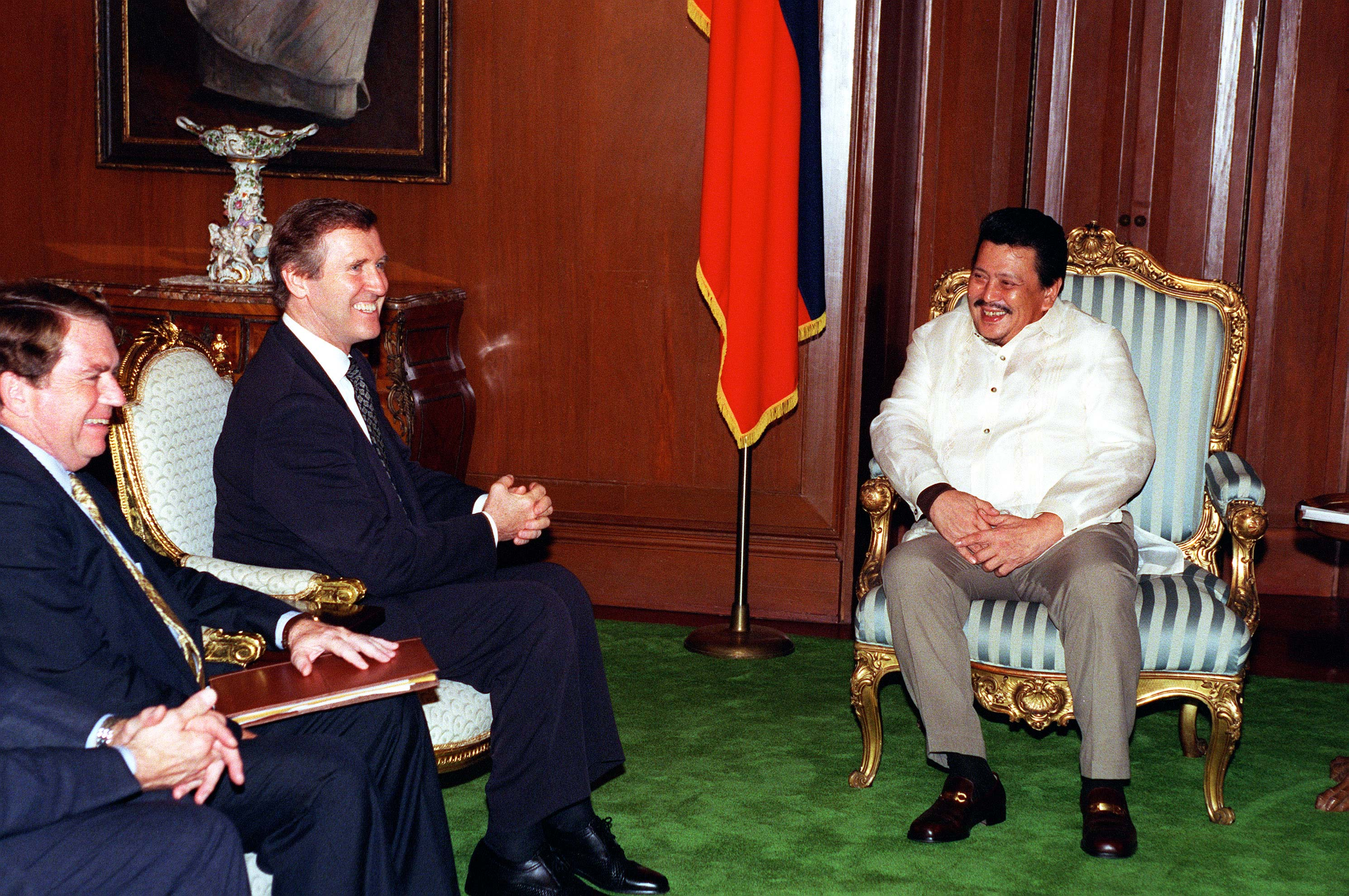 U.S. Ambassador to the Republic of the Philippines Thomas Hubbard (left) and Secretary of Defense William S. Cohen (center) visit with President Joseph E. Estrada (right) at Malacanang Palace, Philippines, on Aug. 3, 1998. Cohen is in the Philippines to discuss a pending agreement on the resumption of military exercises between the Philippines and the United States. DoD photo by Helene C. Stikkel. (Released)